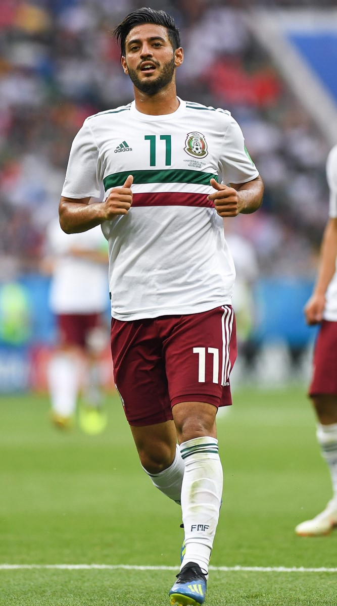 Carlos Vela